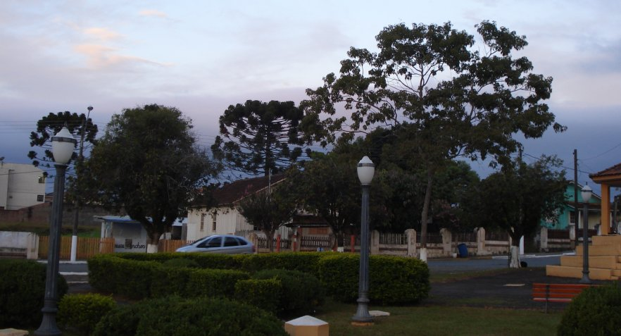 Town of Jaguariaíva, Brazil